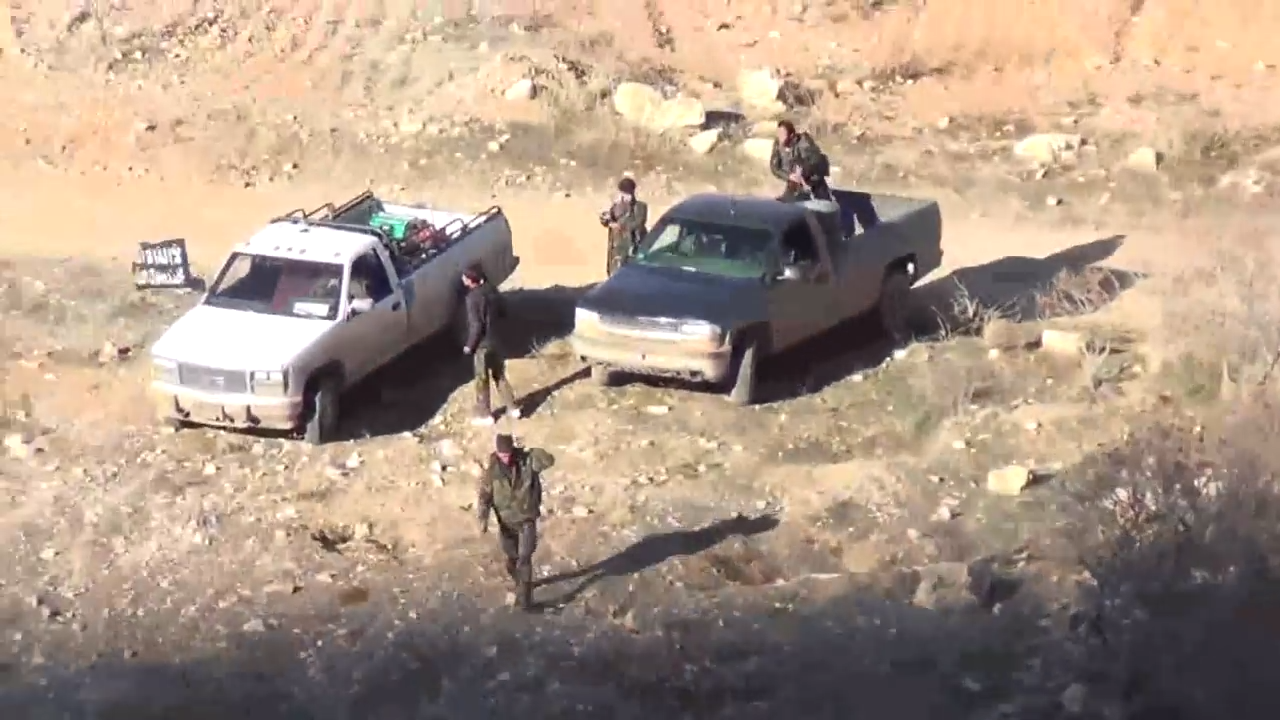 Fatah al-Islam fighters and pickup trucks in the Qalamoun Mountains.